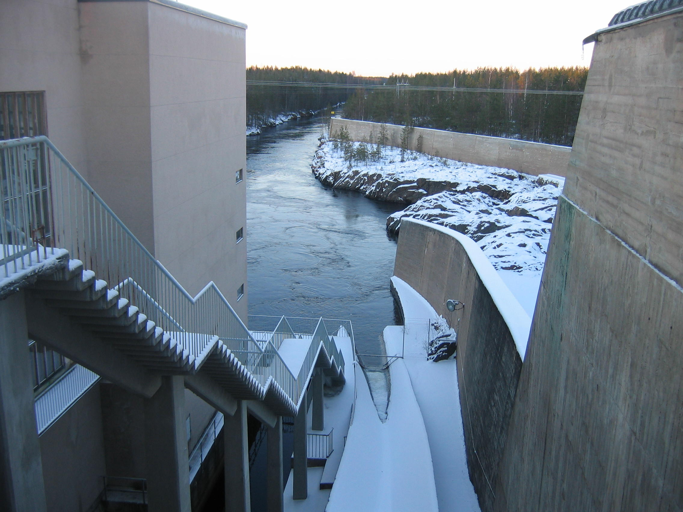 Jylhämä power plant in the Oulu river in Vaala, Finland.